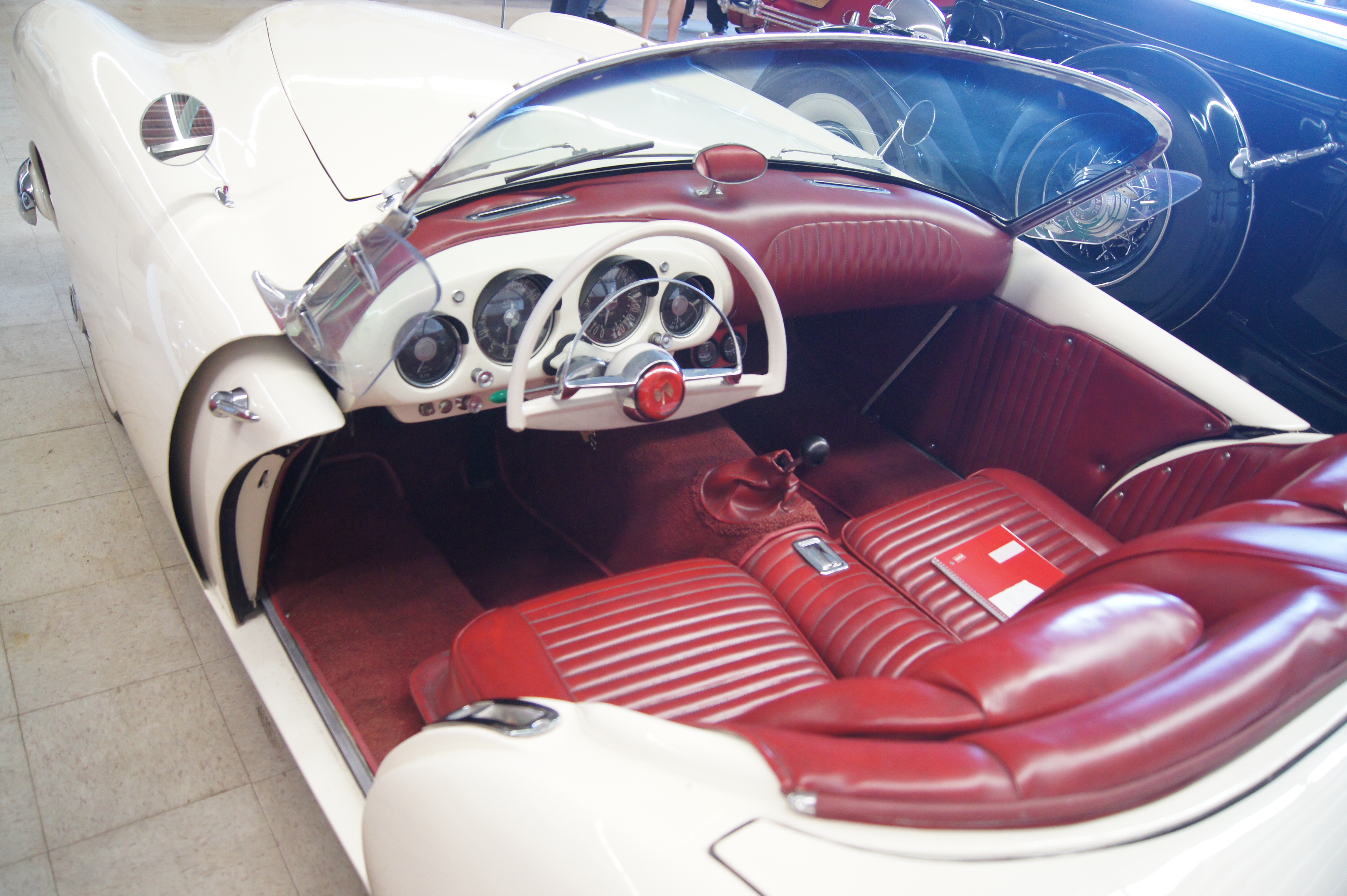 Day 2 The last scheduled stop was in Brooten, MN to visit the rare and exquisite Bohmer collection. It was a treat to see many fantastic cars that included four V-16 Cadillacs. I hope the Bud Runners had as good a time in the area, as I had following them. It is a great group with great cars. Tour hosts Dick & Janet and Gary & Deb did an excellent job! Enlisting Francis Kalvoda as a local consultant was very smart first move. The tour even captured interests of media outlets in Willmar & Glenwood. I anticipate that their presence in the area will invigorate local car owners to get their own cars out of storage in time for the Willmar Car Show, May 17th, 2015. Click here for more car pictures at my Flickr site.